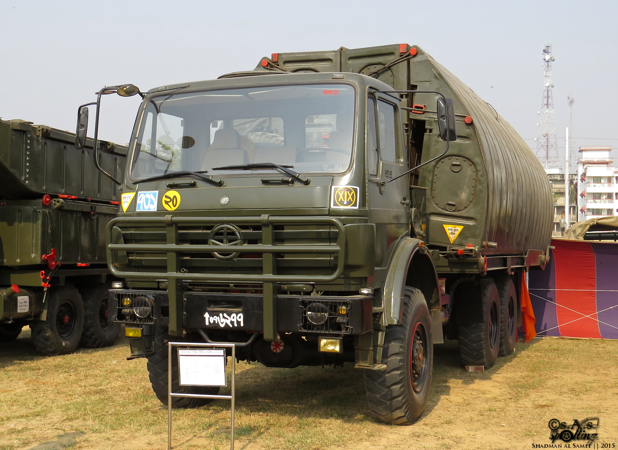 Military Hardware Disp 2015.